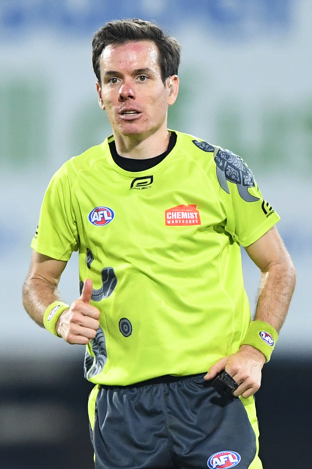 Robert O'Gorman during the 2019 AFL round 11 match between Melbourne and Adelaide at TIO Stadium on Saturday, 1 June 2019 in Darwin, Northern Territory.